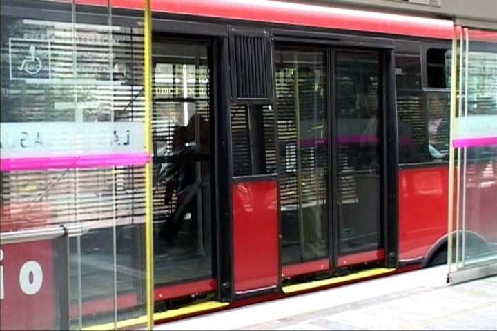 Sliding glass doors at TransMilenio station.